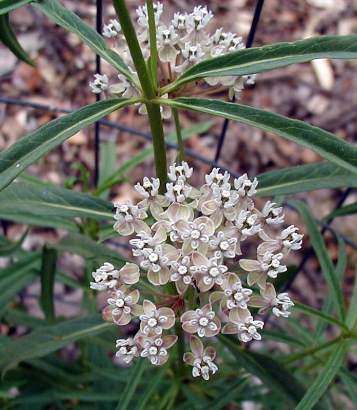 Asclepias fascicularis — Narrowleaf milkweed.